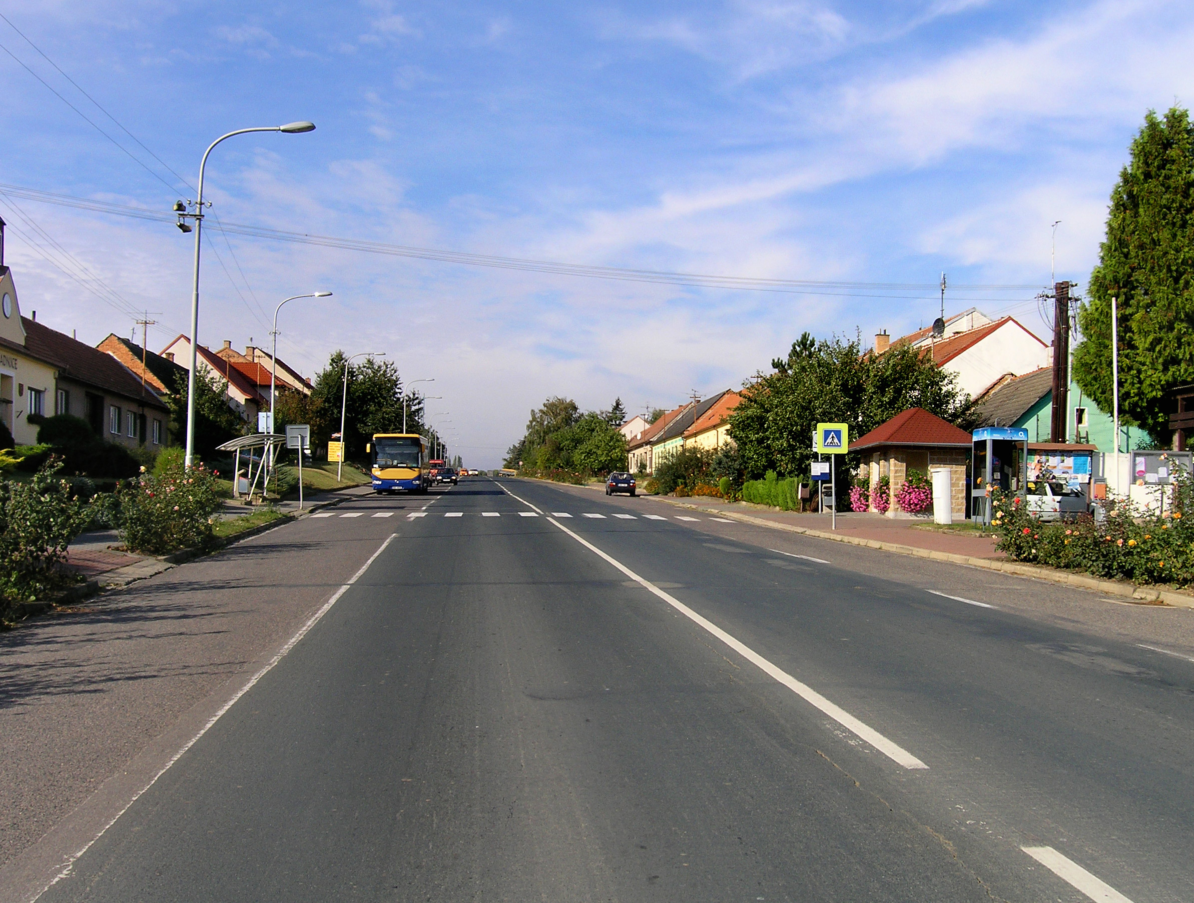 Main street in Kašnice, Czech Republic